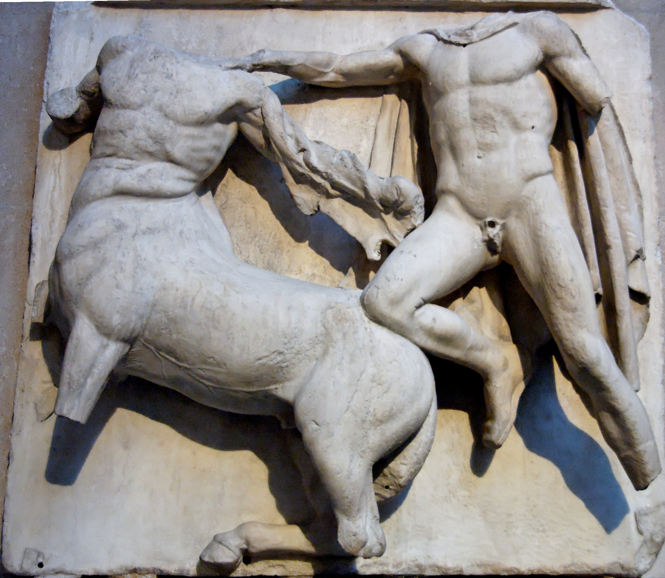 Lapith fighting a centaur. South Metope 3, Parthenon, ca. 447–433 BC.